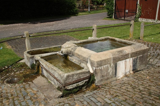 Spring Well On the appropriately named Spring Lane, water rises in a central cistern which in turn feeds three smaller and lower troughs. A plaque nearby reads "In 1711 the constables of Horbling paid £9 15s 5d to Anthony Ashley of Stamford to construct this well and maintain it for 20 years. In January 1998 the wells were restored by E.Bowman & Sons of Stamford at a cost of £5,600 using parish funds and grant assistance"